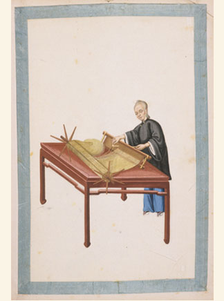 "Preparing ramie fiber for weaving", Image 35, from The Story of Ramie From Seed to Finished Garment. This five volume, brocade-bound set of 62 Chinese watercolor paintings was collected by Sidney and Mildred Edelstein. The watercolors show, in chronological order, the process of producing Ramie cloth, a silk-like fabric, in China during the 1820s. The collection is accompanied by a transcription of hand-written text, describing the steps in Ramie cloth production. Each individual watercolor is framed with silk borders and displayed in five brocade-bound volumes. The watercolors are grouped as follows: 01:11.021A - Volume 1 - Image 1-12 01:11.021B - Volume 2 - Image 13-25 01:11.021C - Volume 3 - Image 26-34 01:11.021D - Volume 4 - Image 35-46 01:11.021E - Volume 5 - Image 47-58